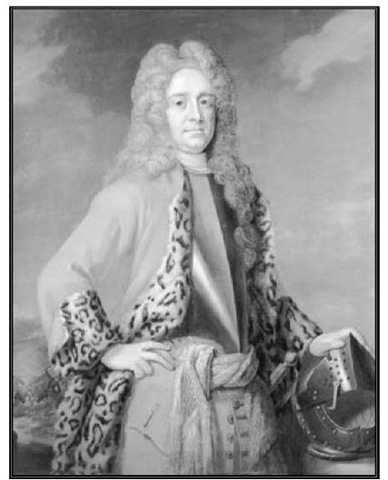 Gallery label: Hunter, a colonial governor in America and later in Jamaica, was born in Ayrshire, Scotland and joined the army as a youth. In 1709 the crown appointed him captain general and governor of the provinces of New York and New Jersey; arriving in New York in 1710 he began a nine-year administration that proved both wise and popular. With Lewis Morris, first lord of the manor of Morrisania in New York, he was co-author of the first play ("Androborus," a satire) to be written and published in America.